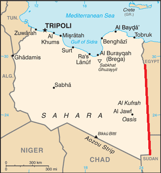 Map of Libya, showing the 25th meridian east as part of the border with Egypt and Sudan